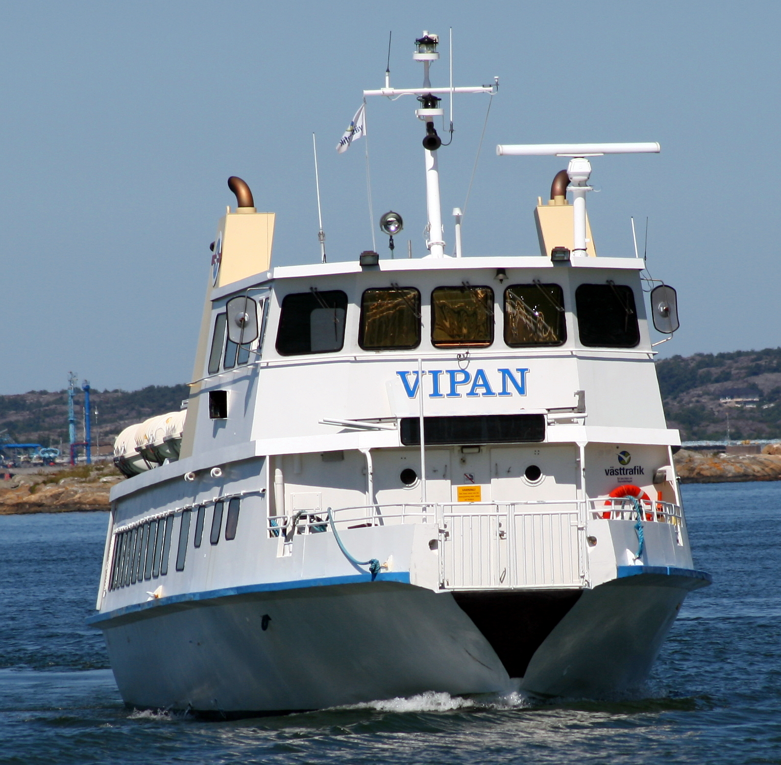 M/S Vipan, owned by Styrsöbolaget, in the southern archipelago of Gothenburg. IMO: 7114422, MMSI: 265547240